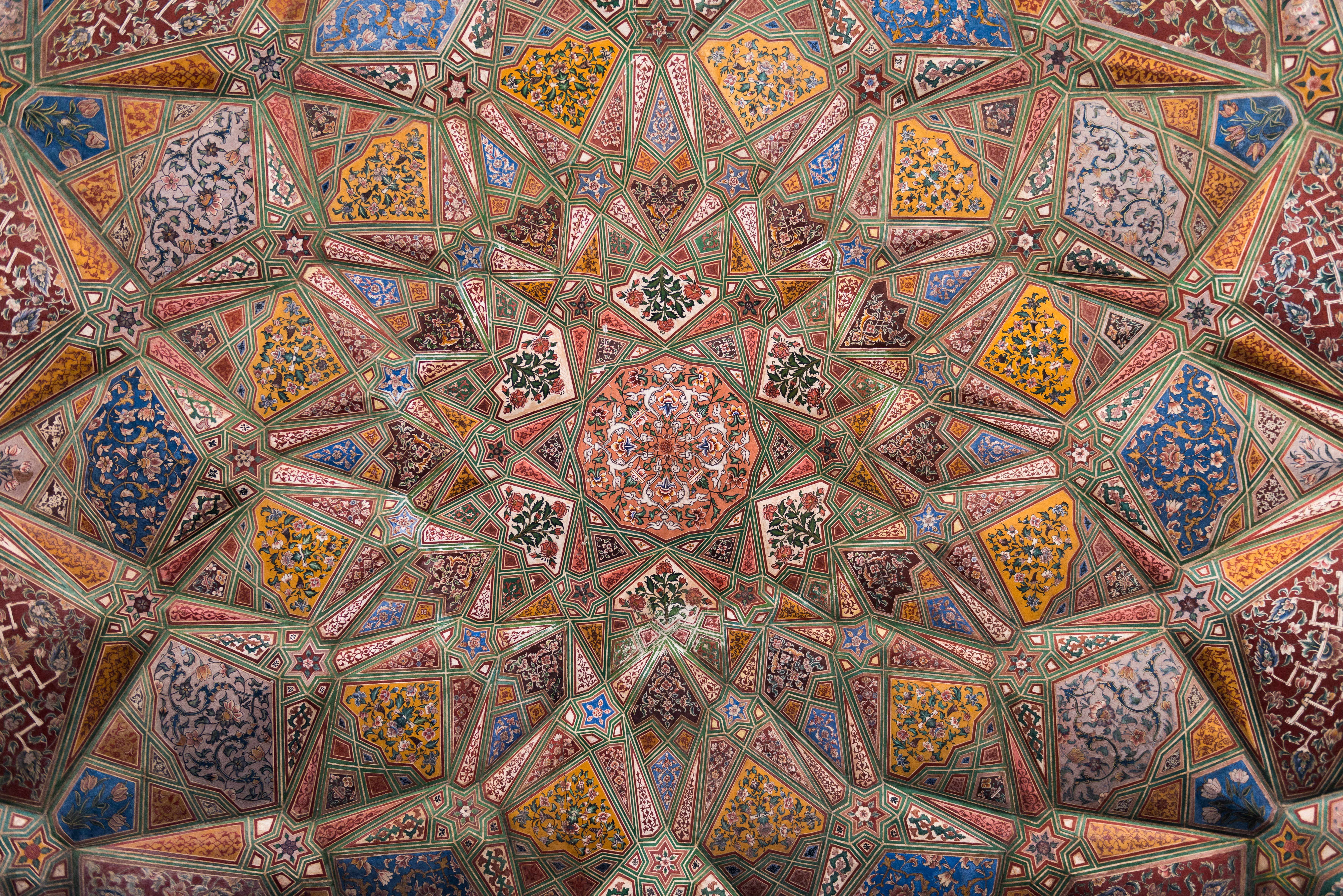 Wazir Khan Mosque This is a photo of a monument in Pakistan identified as the PB-100